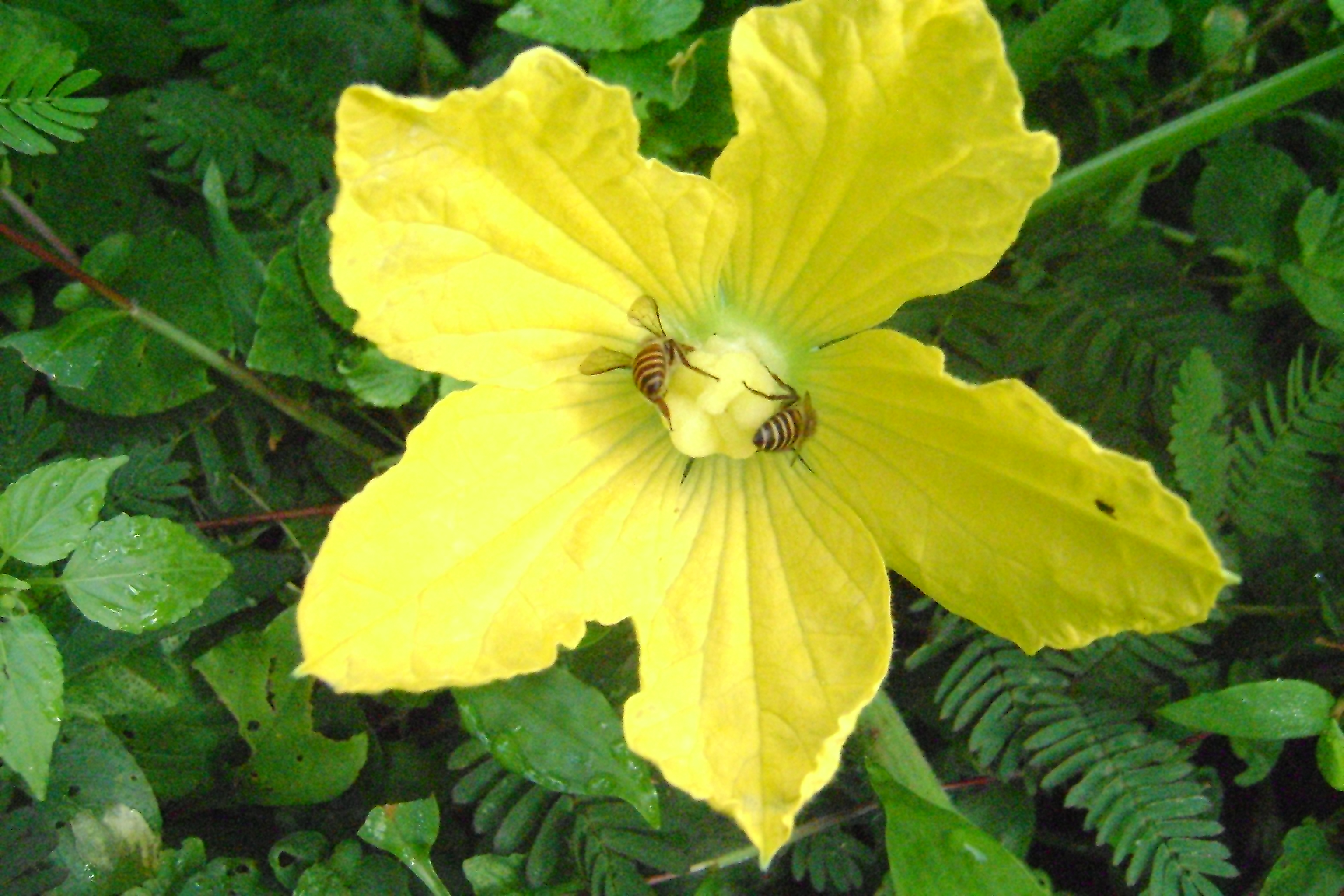 Benincasa hispida